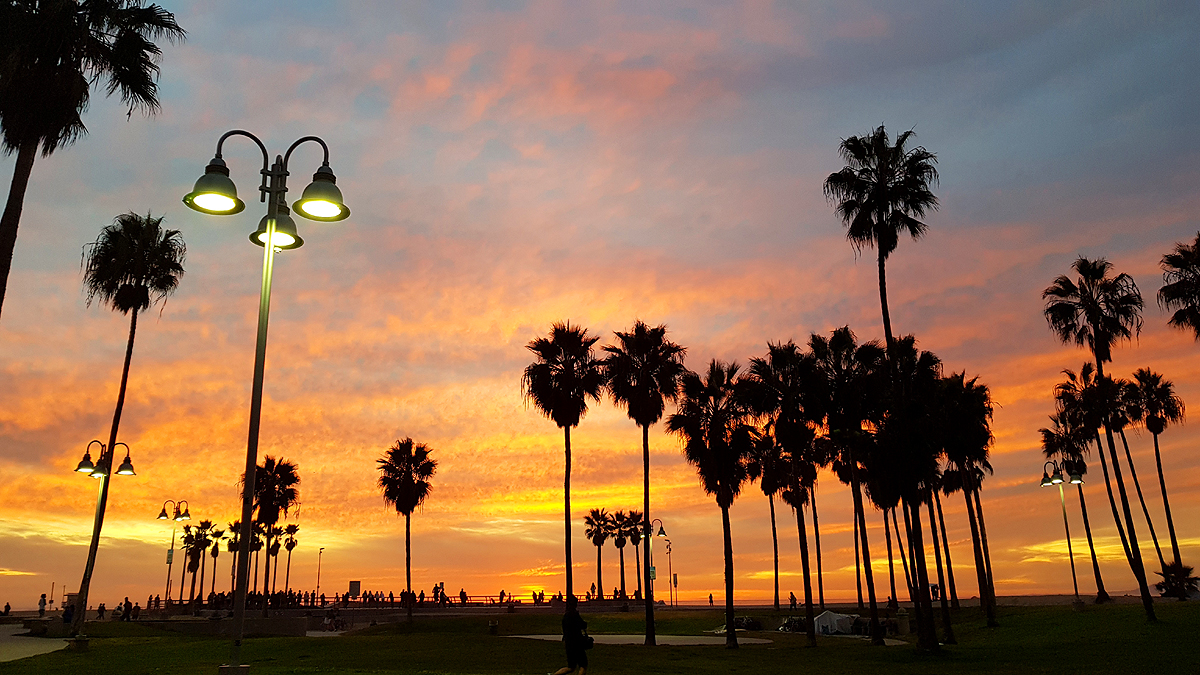 Sunset at Venice Beach